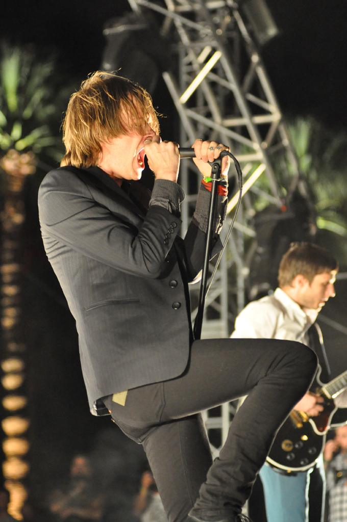 Refused, Coachella 2012, Day one, Friday, April 20, 2012